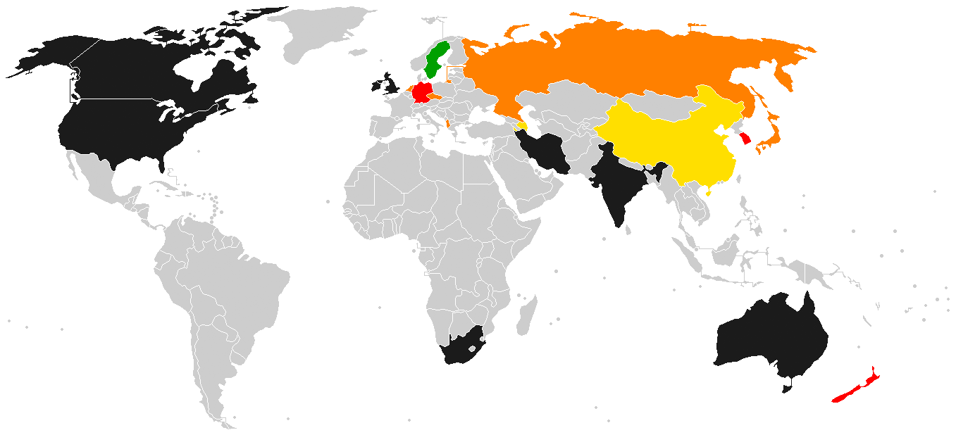 Coloured world map indicating irreligion in the world.